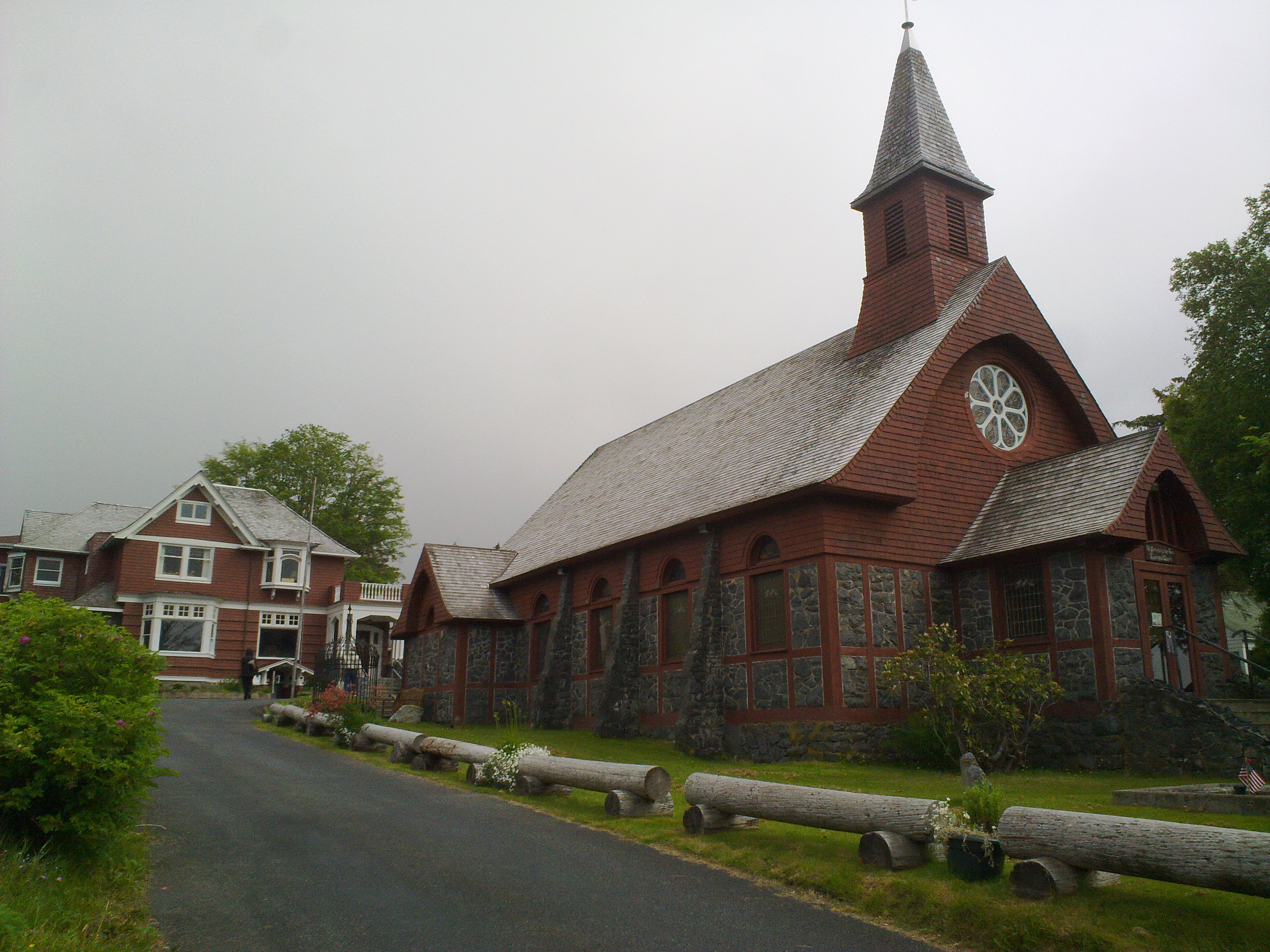 St. Peter's by the sea in Sitka, Alaska with the rectory, called the See House at the back left. The two buildings are listed separately on the NRHP. The See House is ref # 78000537 The church is ref # 78000538